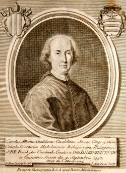 Cardinal Carlo Alberto Guidoboni Cavalchini (1683-1774)